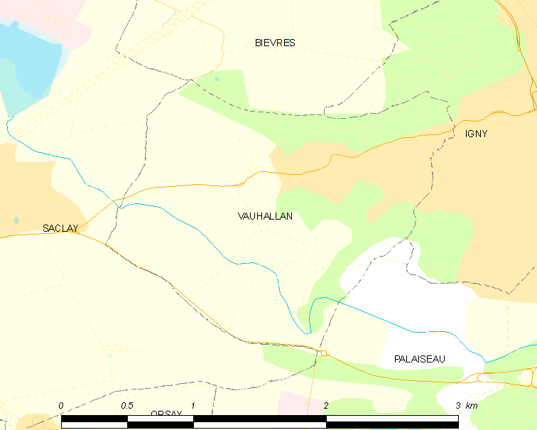 Map of French municipality Vauhallan